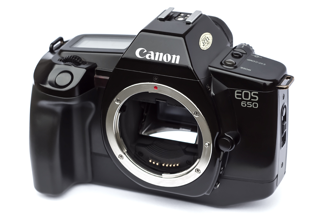 Canon EOS 650 35mm SLR